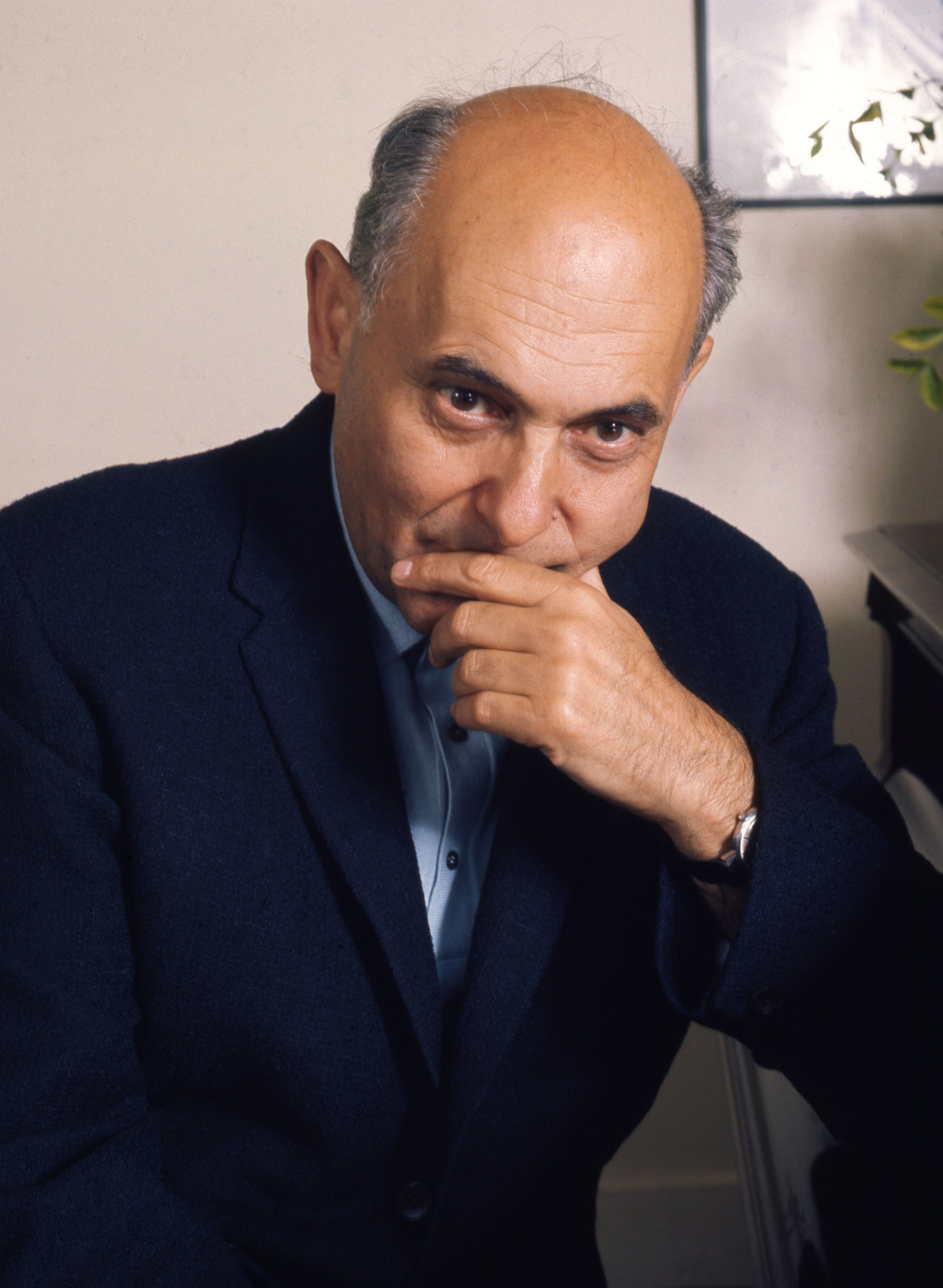 Sir Georg Solti in London